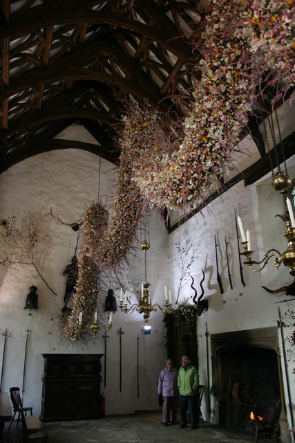 Cotehele House, The Christmas Garland National Trust staff and local volunteers have continued the ancient tradition of making a Garland every Christmas and hanging it in the Great Hall of the house, with other traditional decorations. It gives a feeling of how the Hall must have appeared in the past, and despite the blazing log fire (it's bigger than it looks) it is COLD ! It is well worth the visit. The Garland is 60 feet long, and is made up of some 30,000 dried flowers that are grown on the Cotehele estate by the gardeners. In recent years local schools have helped to make another smaller Garland that is hung in the Barn restaurant at the House. See 1604431.